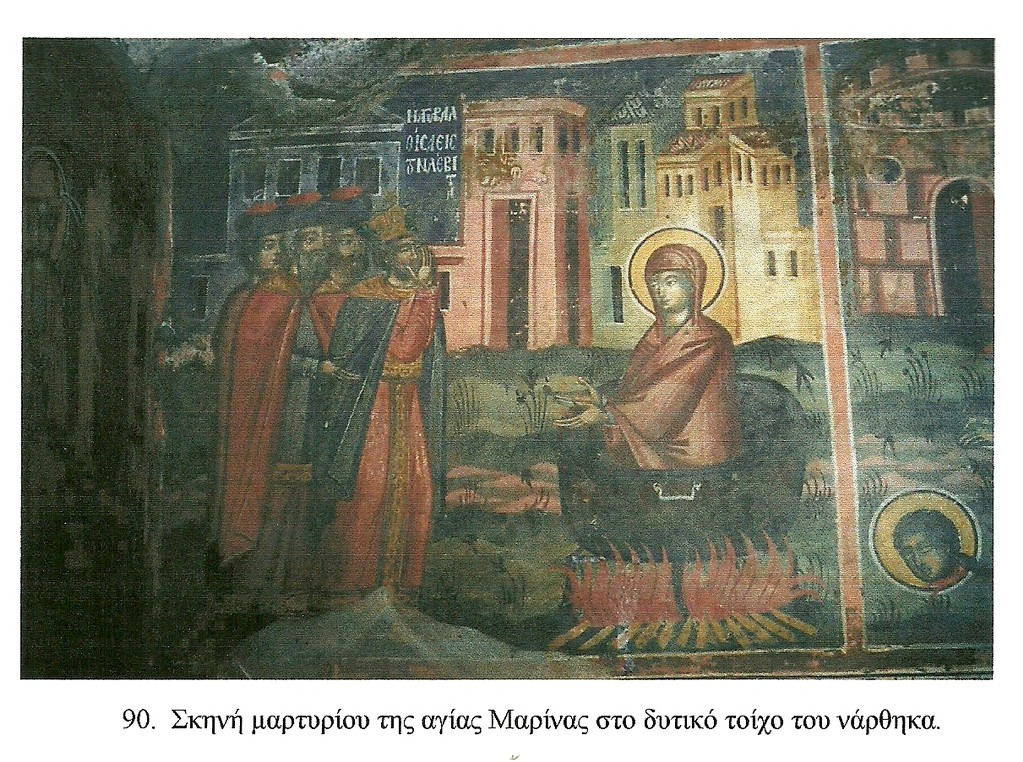 Fresco in St Marina Church in Agia Marina, Imathia, Greece.